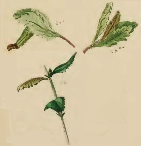 Stainton’s Natural History of the Tineina (1855–1873): Aspilapteryx limosella sprigs of Teucrium chamaedrys with mined leaves (2b, 2b* and 2b**)